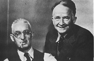 Photograph of friends cartoonist Jimmy Frise and journalist Gregory Clark